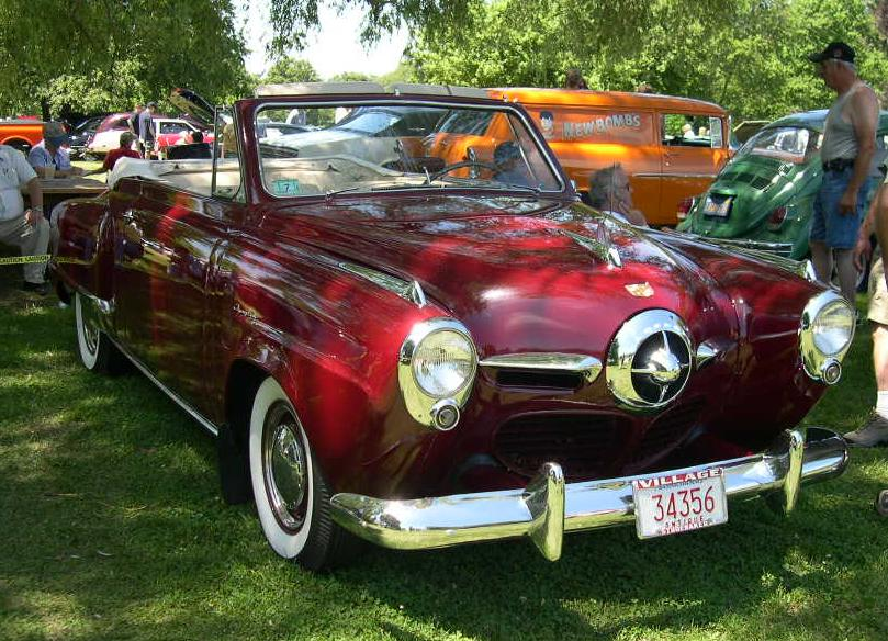 1950 Studebaker Commander Source: Photographed at the Bay State Antique Automobile Club's July 10, 2005 show at the Endicott Estate in Dedham, MA by User:Sfoskett